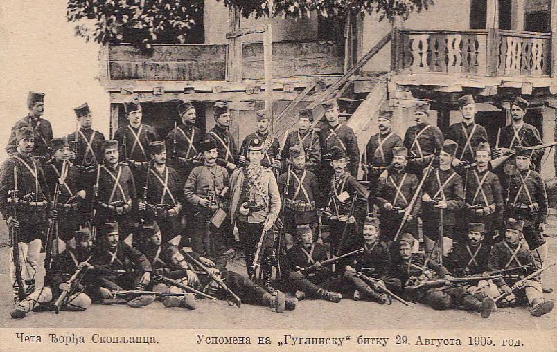 Serbian Chetnik Vojvoda Đorđe Ristić-Skopljanče and his unit (četa). Photo taken in the village of Lepčince near Vranje, in 1905, before the Battle of Guglin (August 29, 1905), in which half of the company fell. Vojvoda Đorđe Ristić-Skopljanče in the centre. Ljuba Jezdić in the top row, third from the left. Vojin Popović-Vuk next to Jezdić. Todor Stojković, next to Skopljanče.